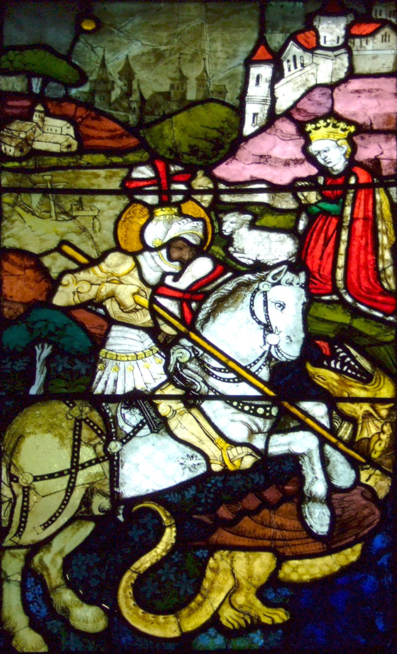 The Lutheran cathedral "Ulm Münster" of Ulm/Germany, coloured window "Saint George" by Hans Acker 1440